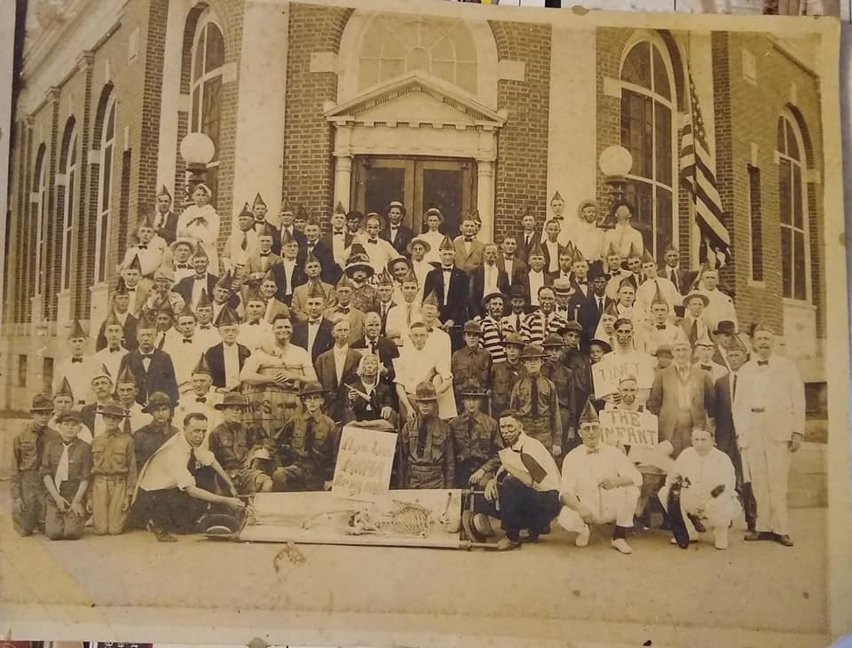 Community event photo from the early 1900's